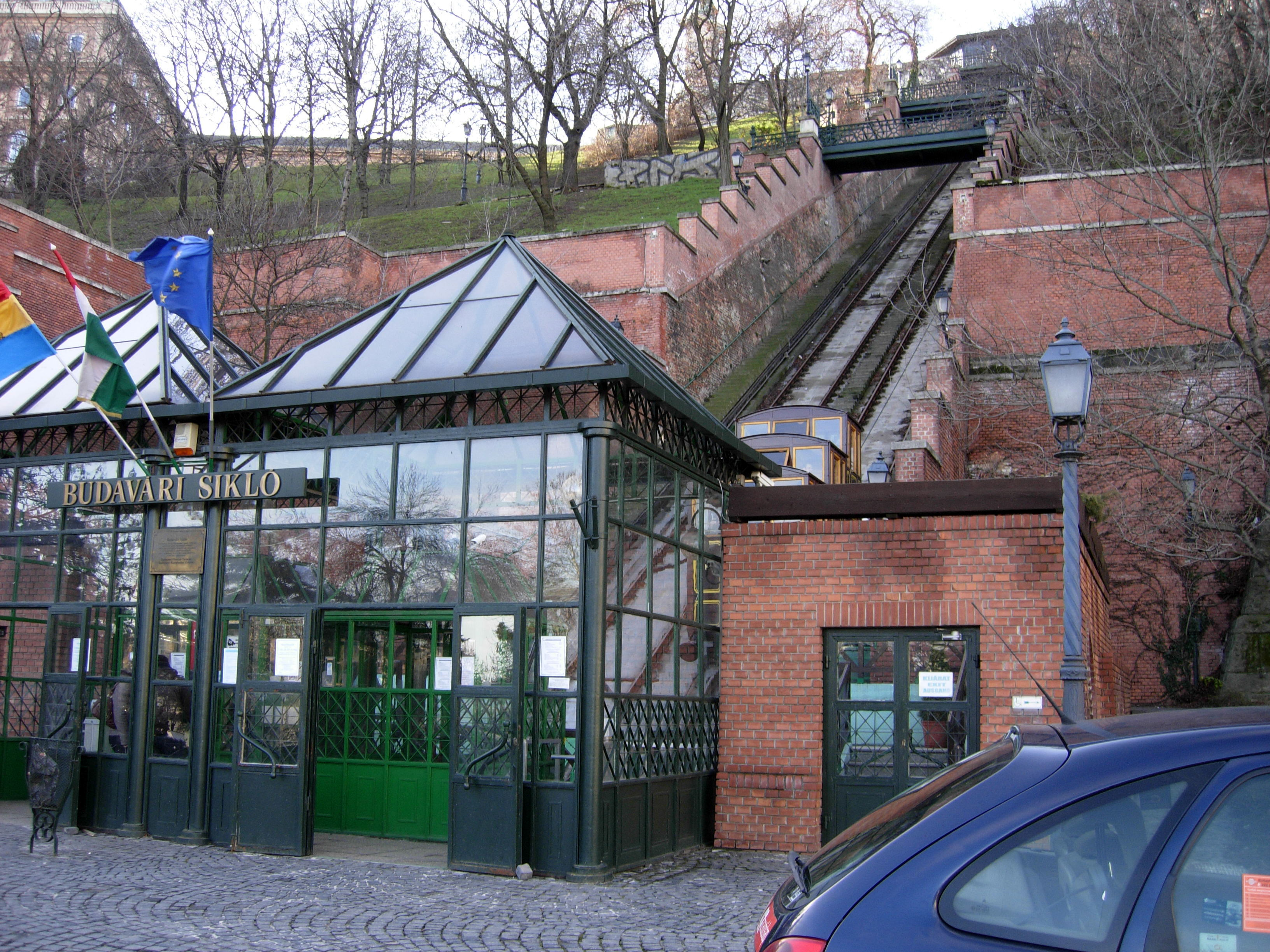 View of the entrance at the front of the funicular. I took this photo myself -- Jan, 2008. Summary View of the entrance at the front of the funicular. I took this photo myself -- Jan, 2008.